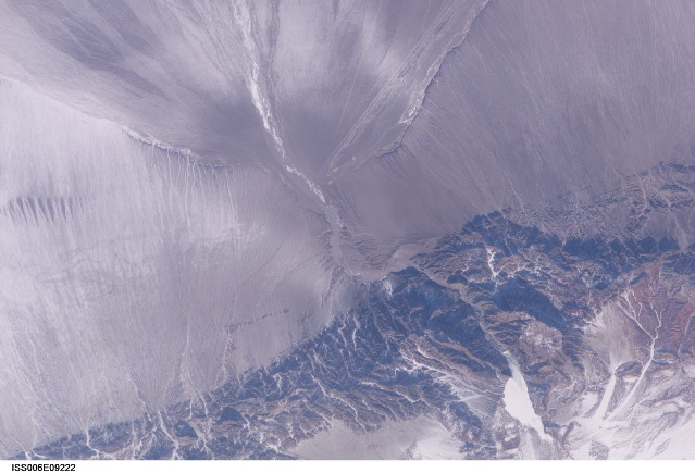 Satellite view of Shule River delta in northern China